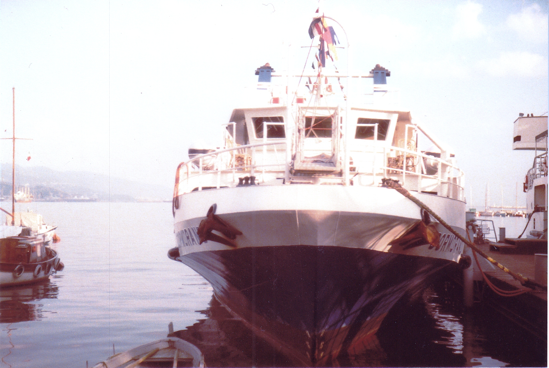 MN Cormorano at Le Grazie Pier.